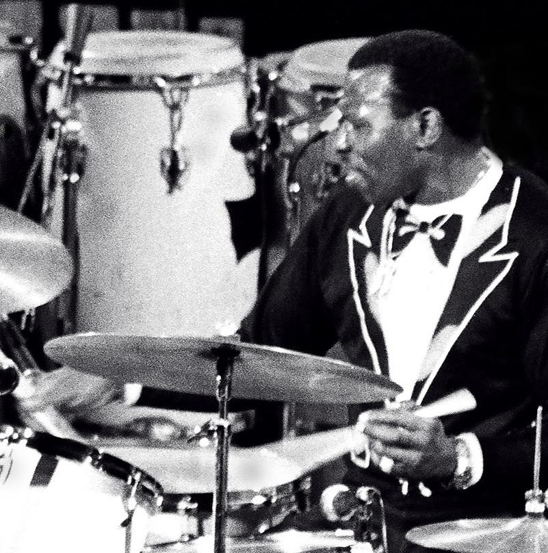 Elvin Jones (cropped version)